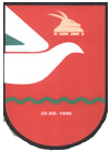 Coat of arms of the former Džepčište Municipality, Macedonia.